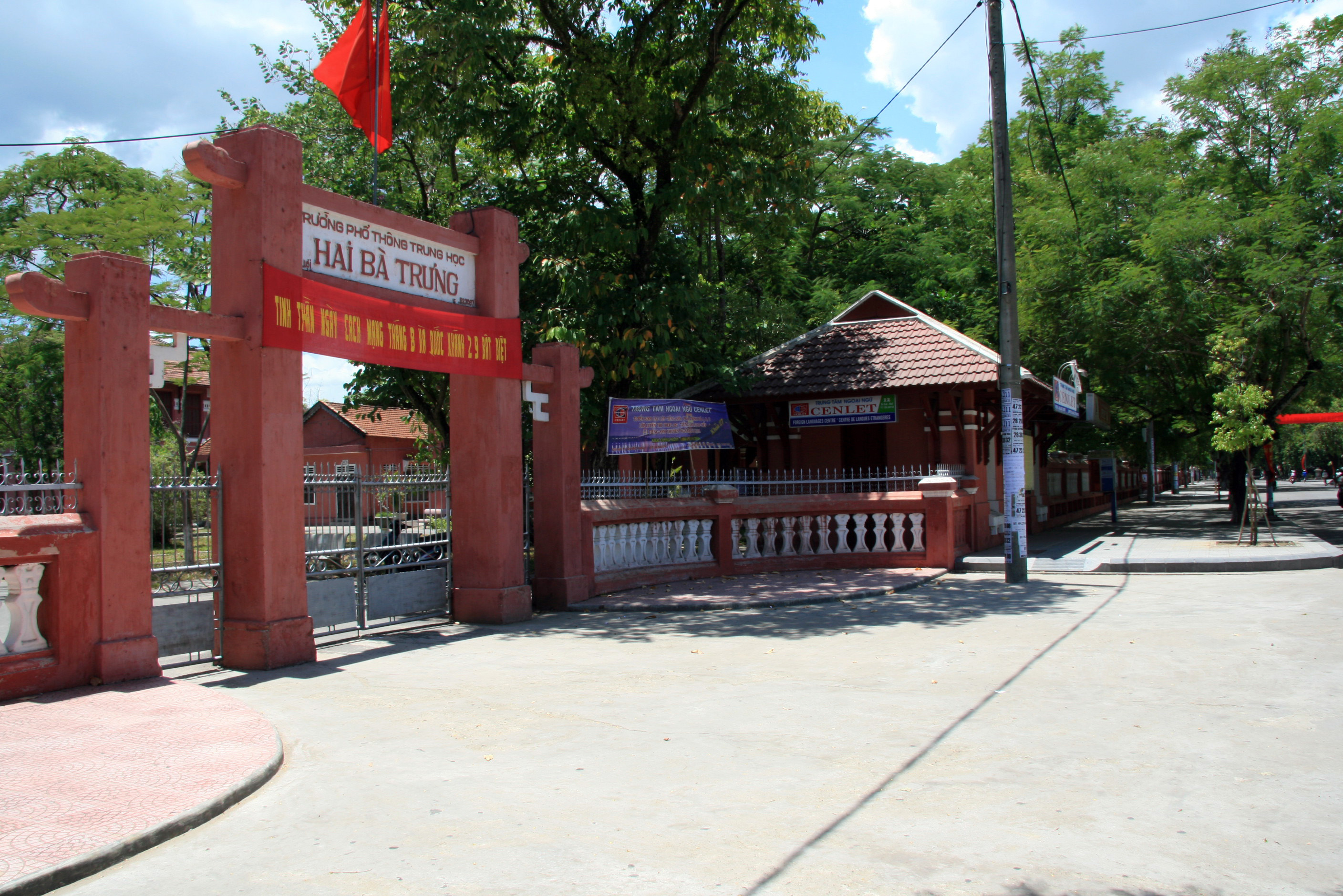 Cổng trường PTTH Hai Bà Trưng, Huế